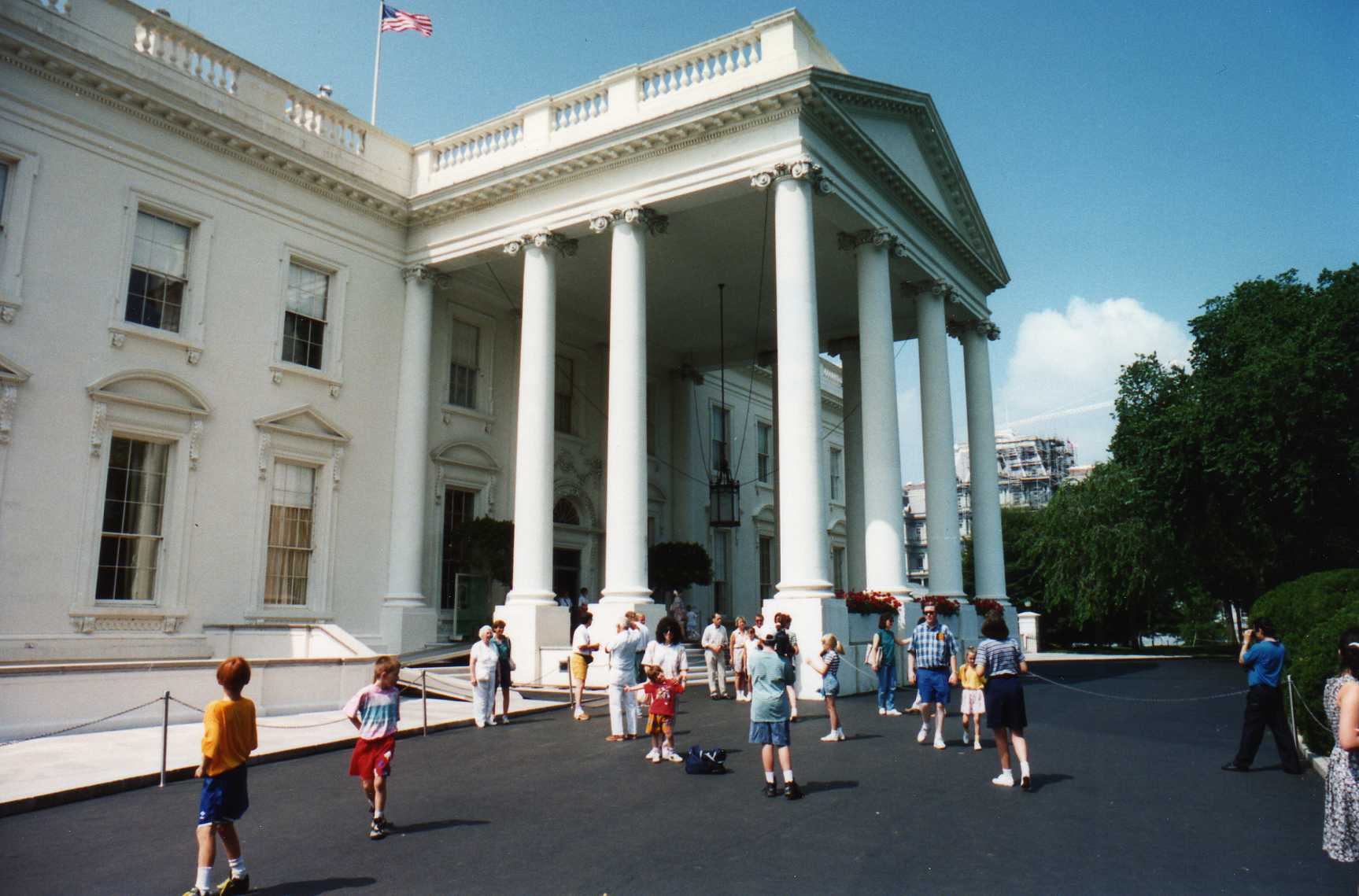 White House visit Tour, North Portico